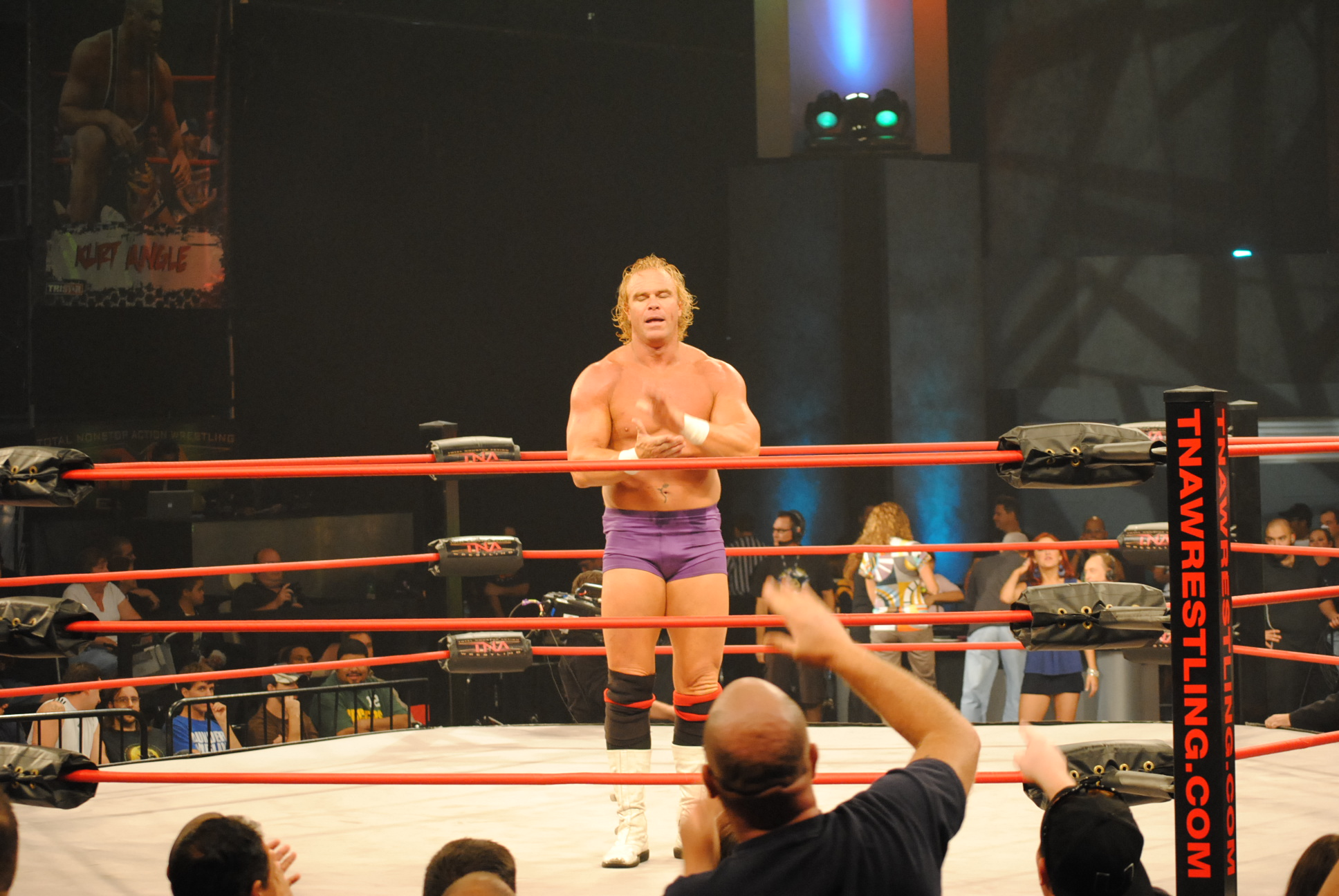 Cute Kip